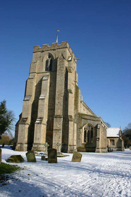 Holy Trinity parish church, Balsham, Cambridgeshire, seen from the southwest in snow